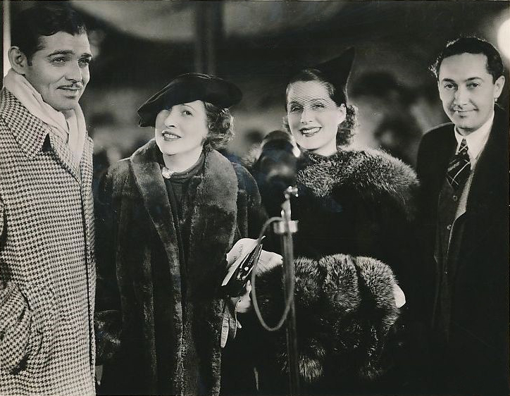 Irving Thalberg with his wife Norma Shearer and Mr. Mrs. Clark Gable at the screening of the MGM production David Copperfield.